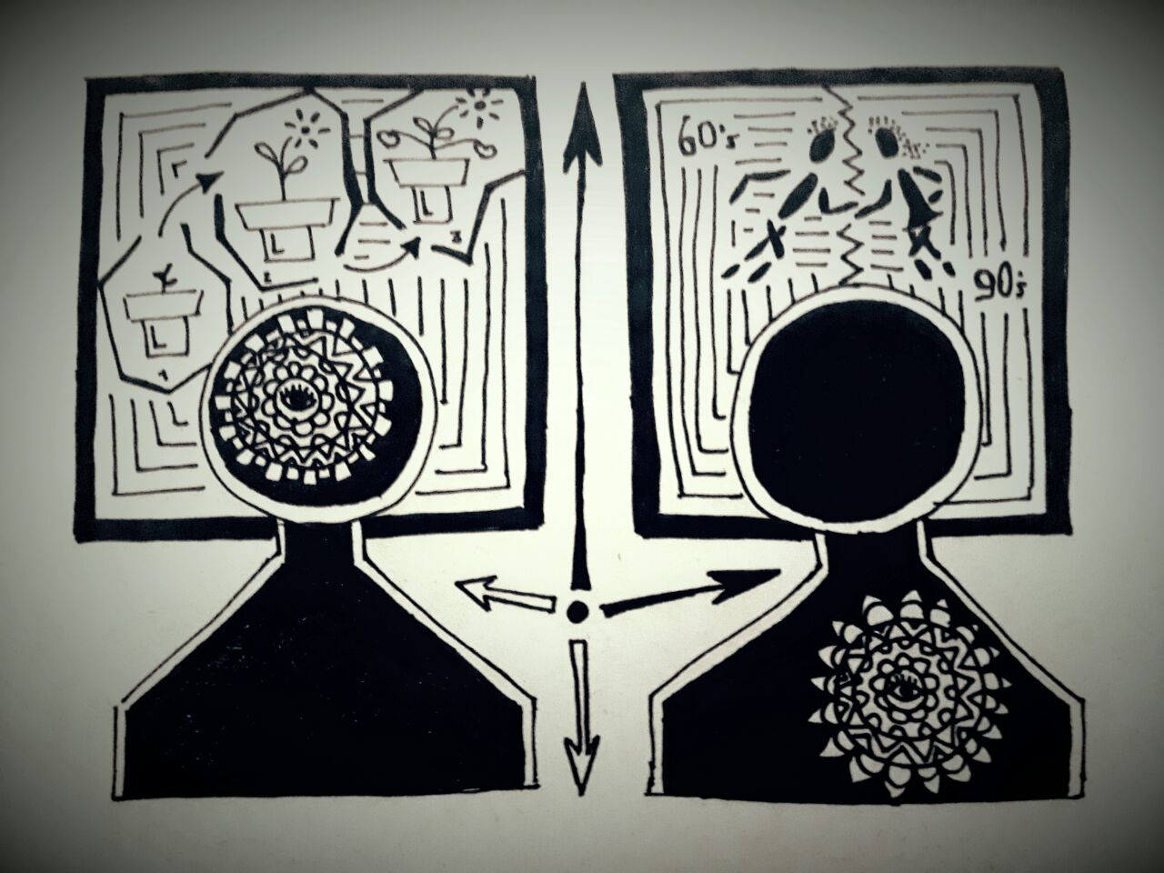 Two different ways of seeing the passage of time